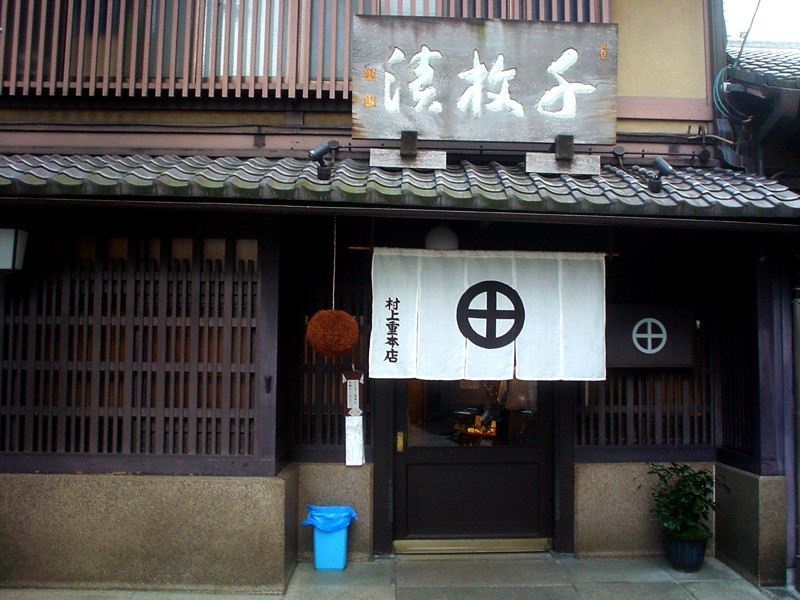 Entrance of the old established tsukemono shop Murakami Jyu Honten [1] founded in 1832.